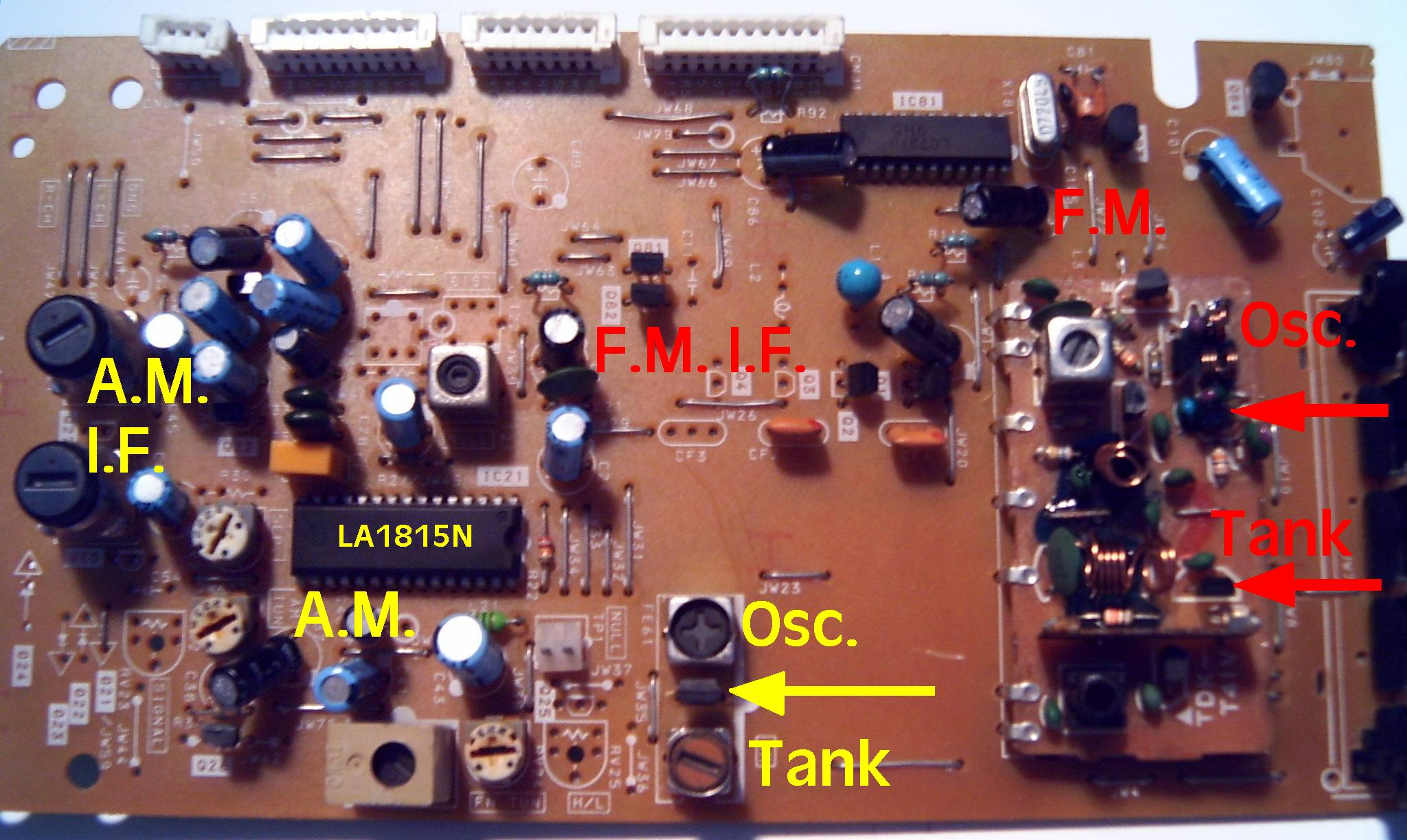 Picture of consumer A.M.-F.M. broadcast tuners with varicap diodes highlighted.